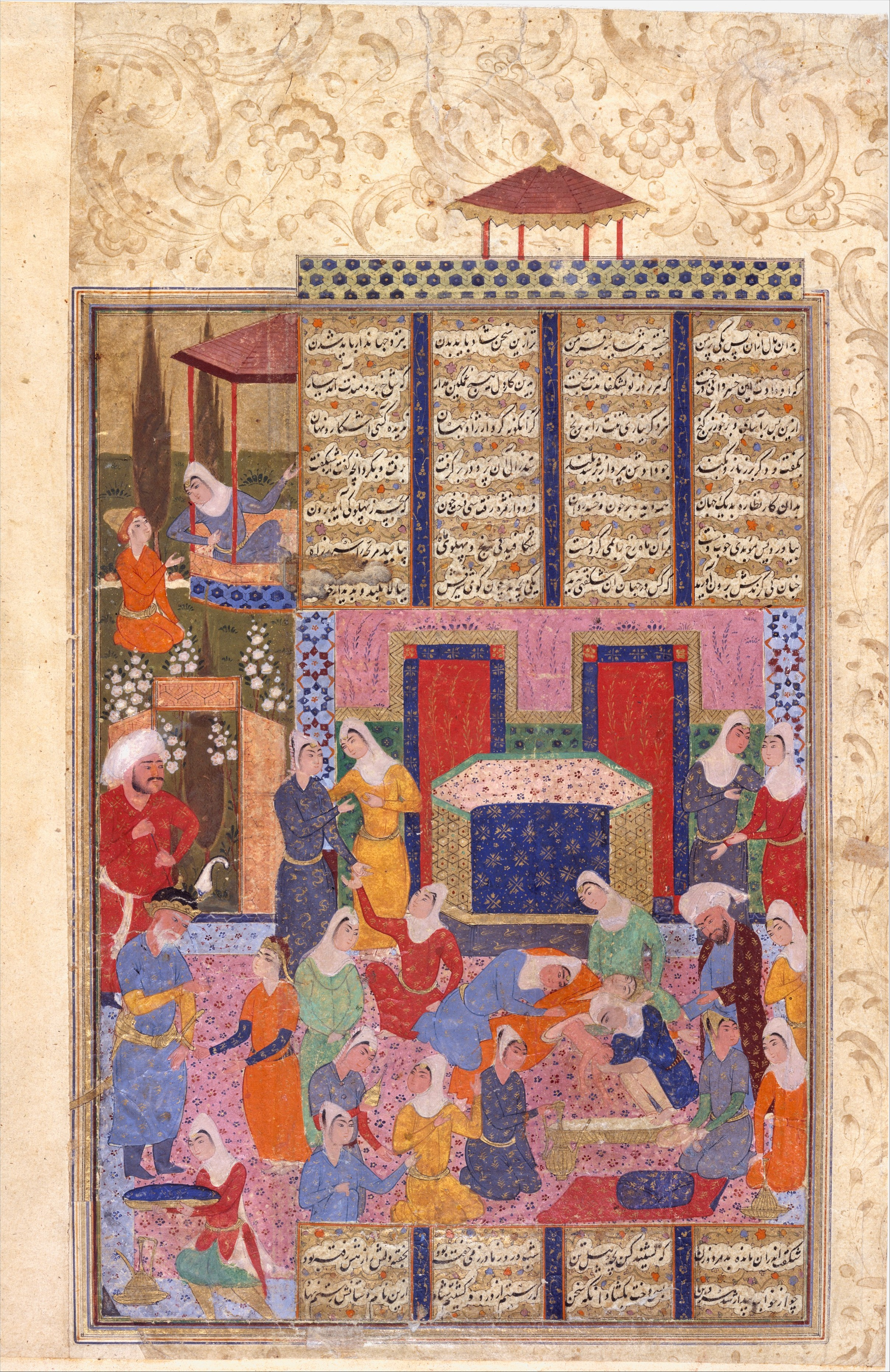 Folio from an illustrated manuscript; Codices